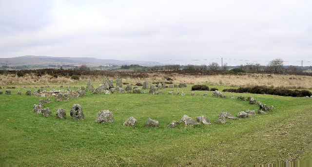 Beaghmore Stone Circles and Standing stones. There are seven stone circles and at least a dozen standing stones.